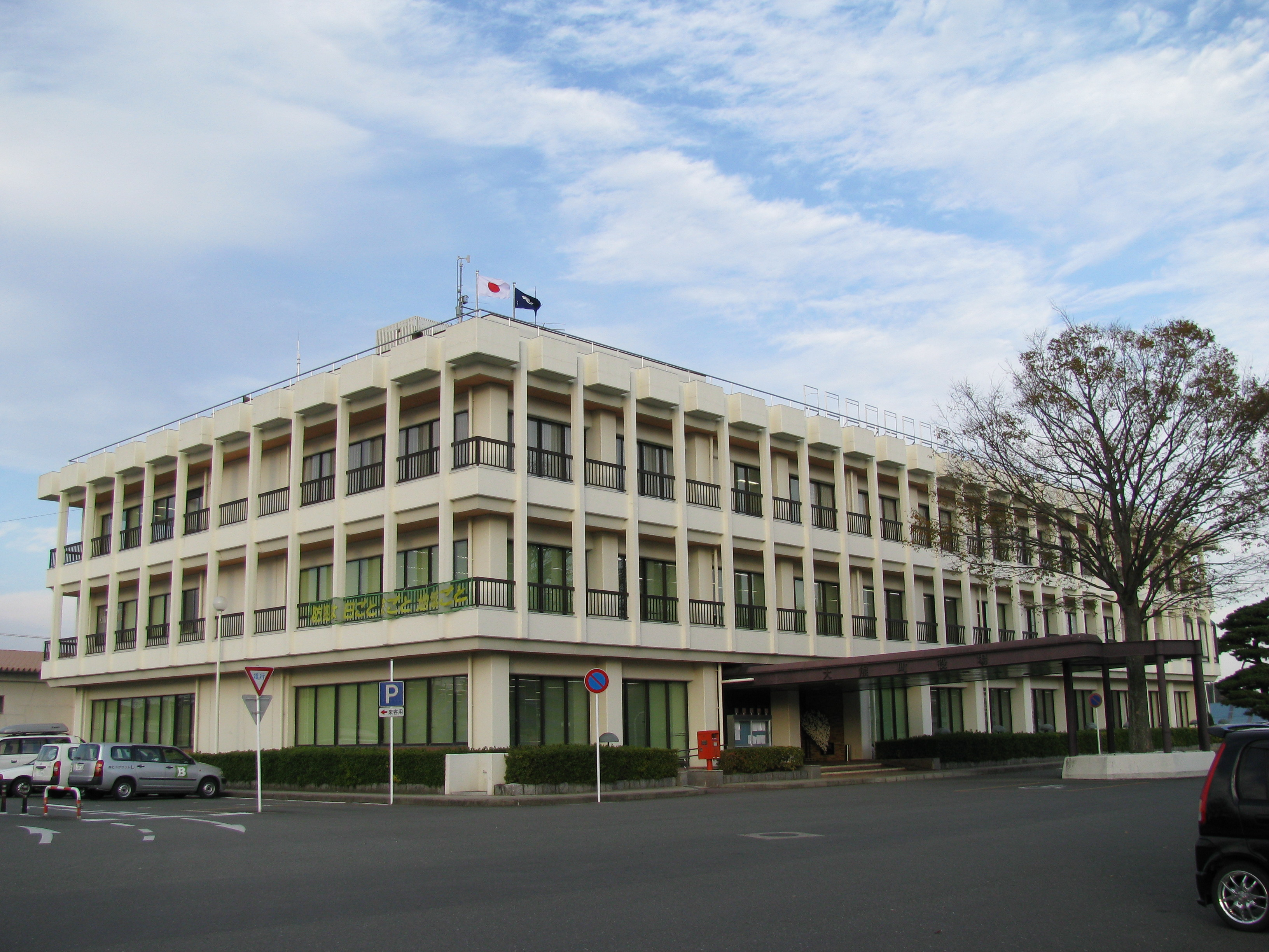 town office at Ookuma-town (Fukushima, Japan)